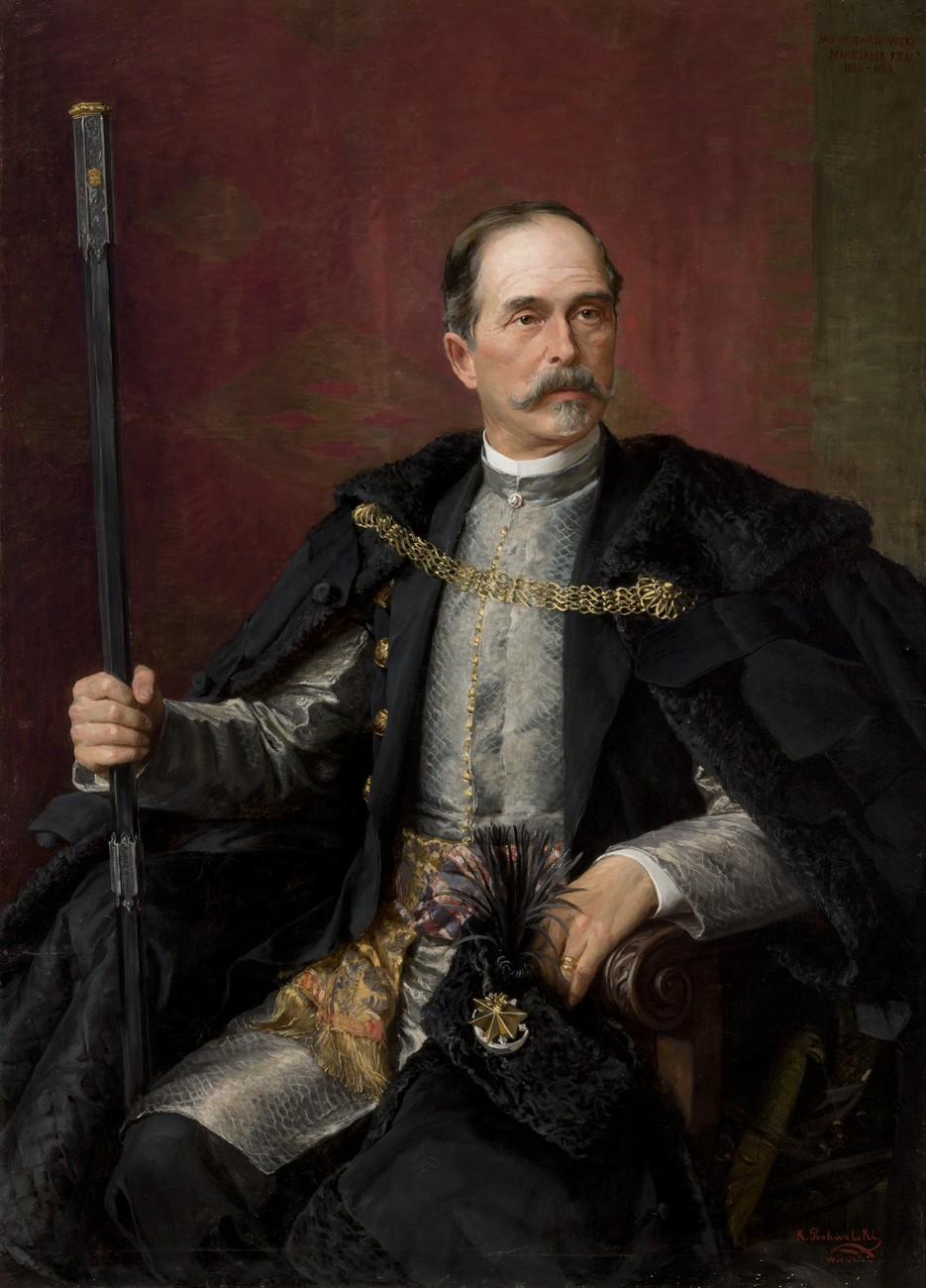 Portrait of Jan hr. Tarnowski by Kazimierz Pochwalski, oil paint, canvas, height 126 cm (49,61 in.), width 91 cm (35,83 in.), nr inw. MNK II-a-525 in collections of National Museum in Cracow.